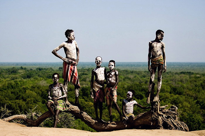 Karo tribe boys